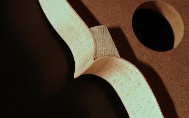 Detail from the glued ribs.